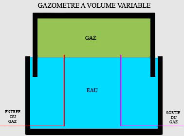 Functioning diagram of of a gasometer with variable volume.